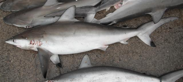 Spot-tail shark (Carcharhinus sorrah) at Ranong Fishing Port, Thailand